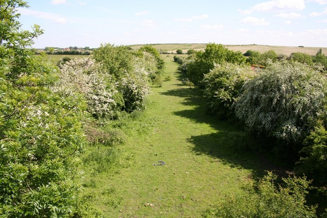 Disused railway bed. From the bridge on Hall Villa Lane Former Bullcroft Colliery branch